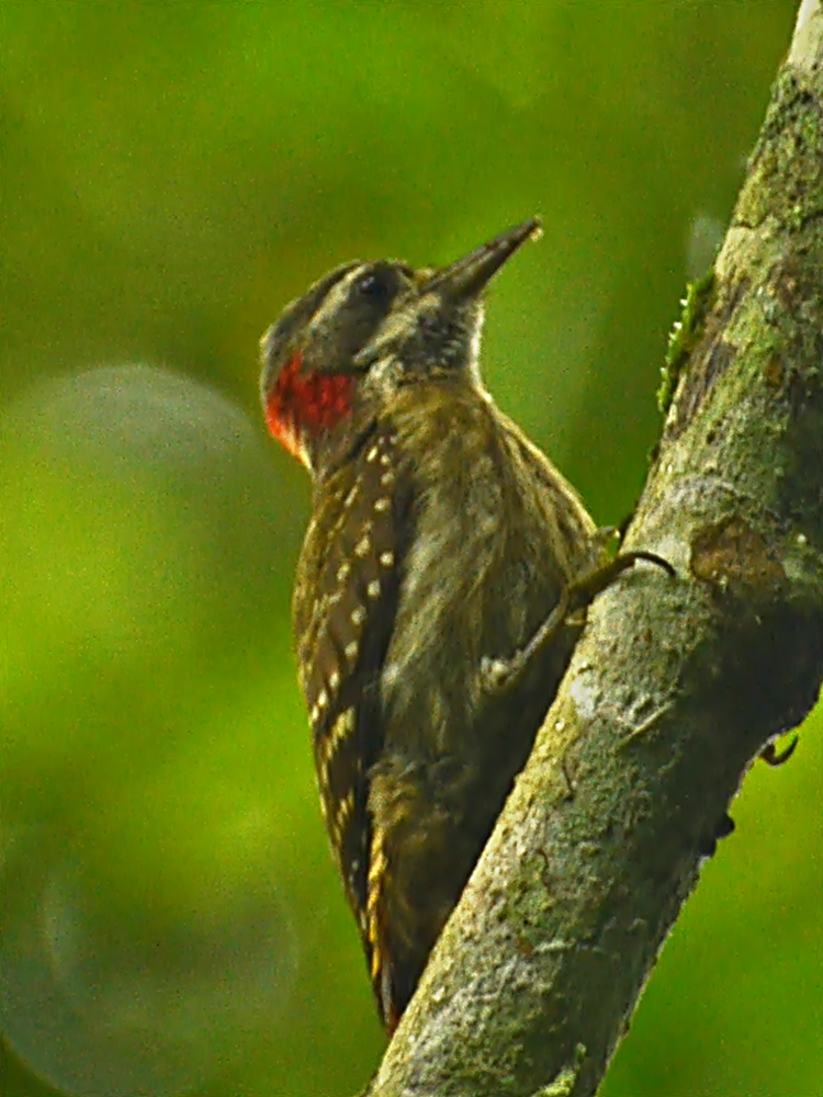 Sulawesi pygmy woodpecker